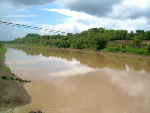 Bengawan Solo River in Bojonegoro, East Java, Indonesia. Taken by me. (Arifhidayat 13:36, 6 February 2007 (UTC))